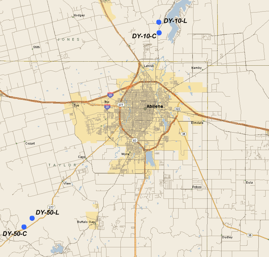 Dyess AFB Defense Area Nike missile sites